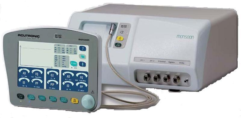 Аппарат высокочастотной струйной ивл Monsoon.